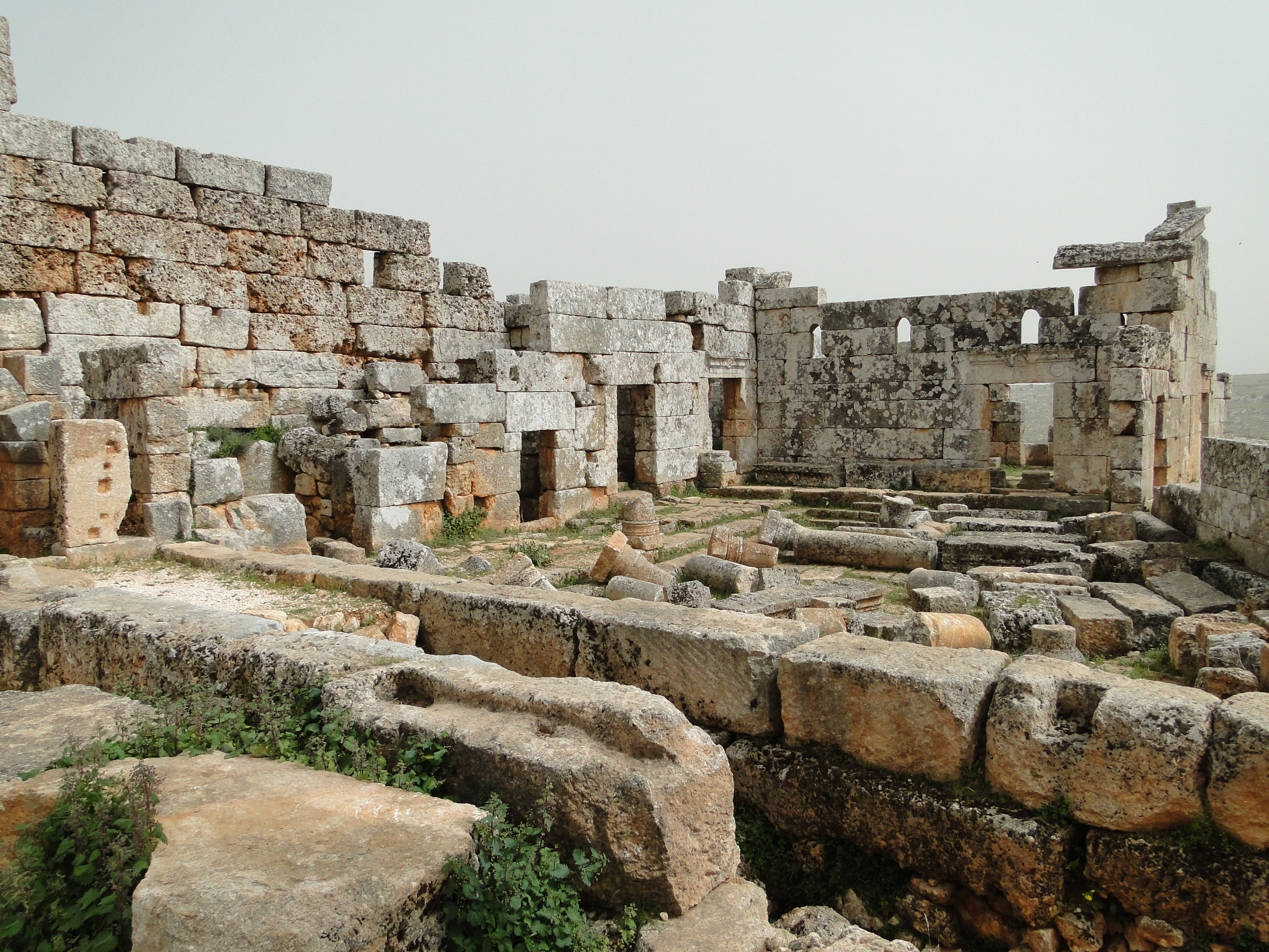 Ruins of the church of Serjilla, Syria